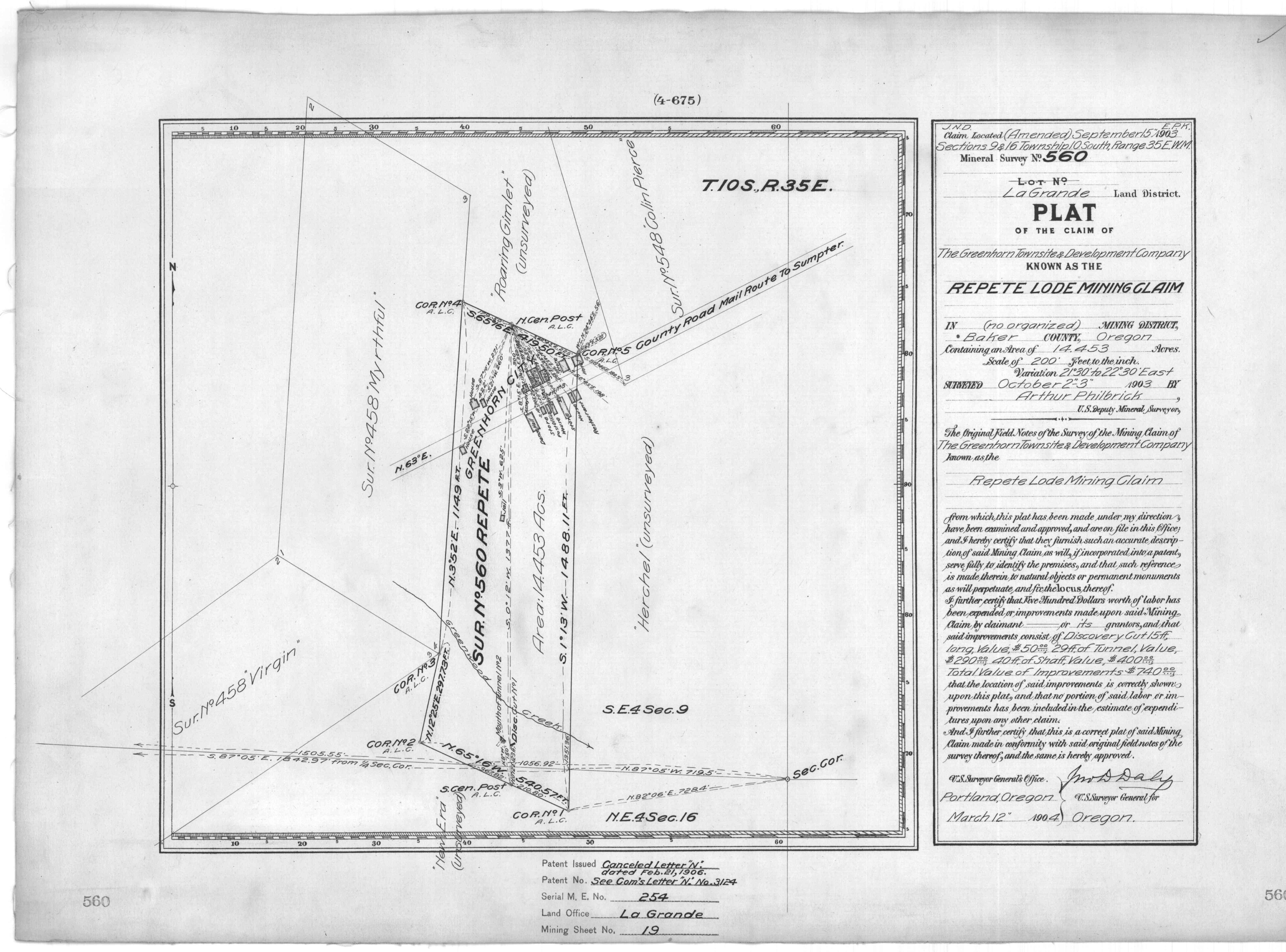 Original plat for the Greenhorn City, Oregon townsite